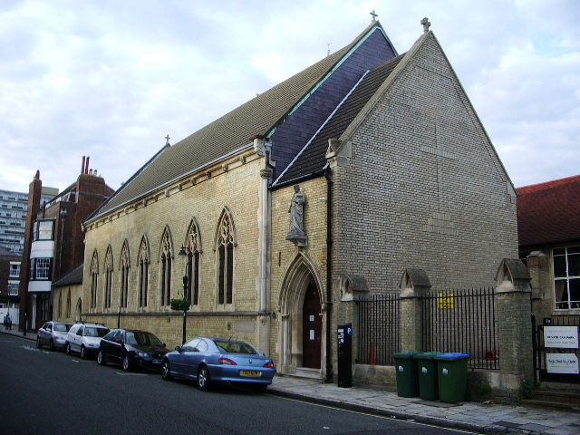 St Joseph's RC Church, Southampton